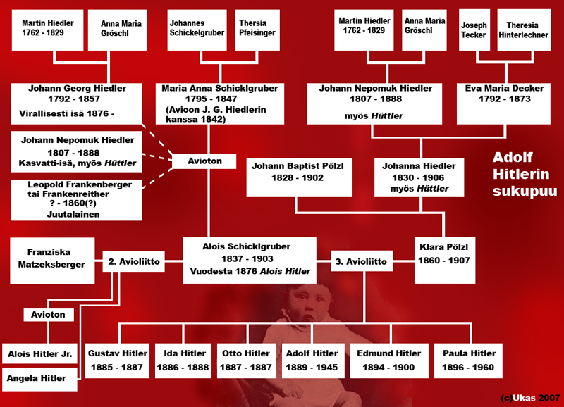 Adolf Hitler's pedigree, in Finnish